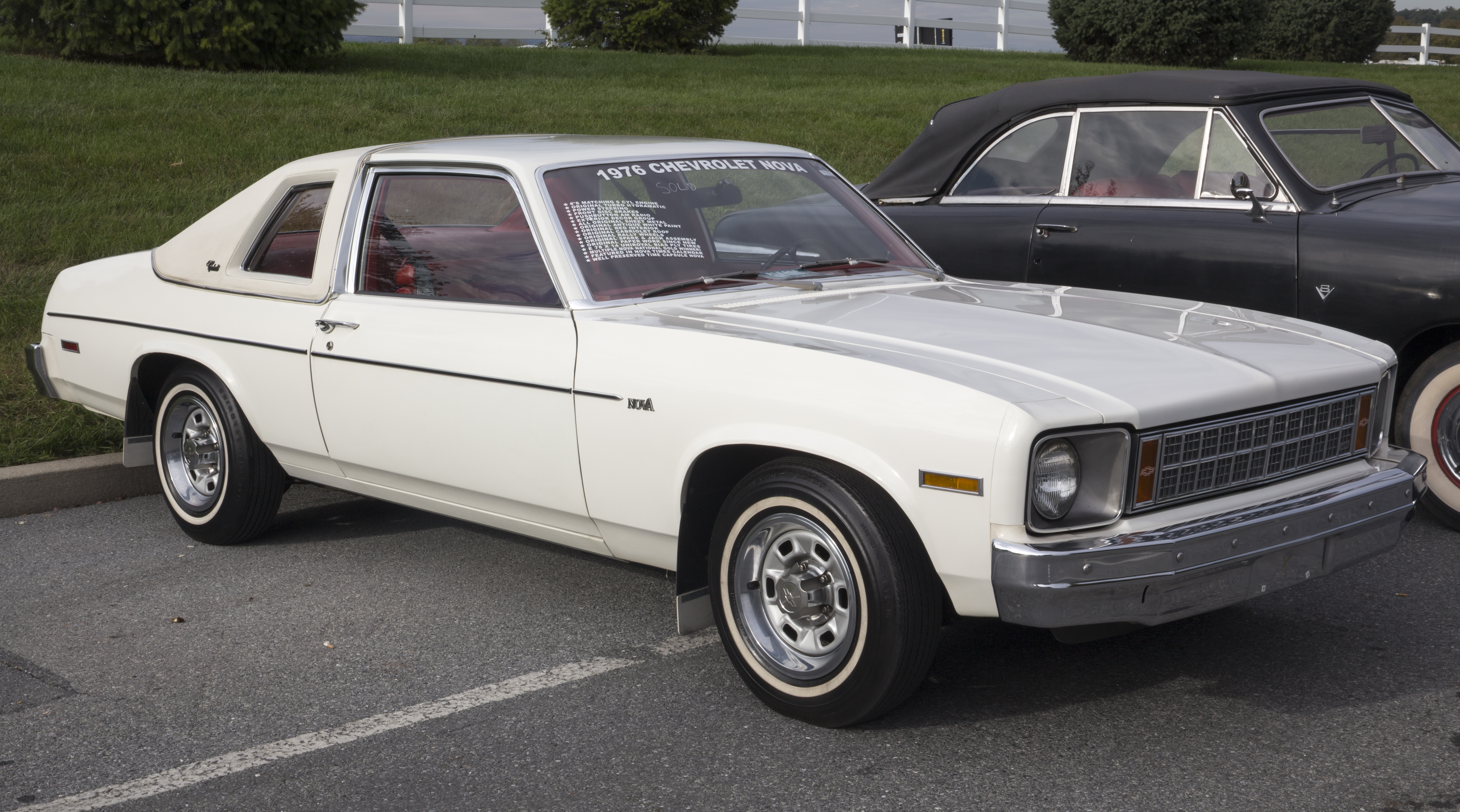 A 1976 Chevrolet Nova 2-door coupe displayed by a vendor at Hershey 2019. White with red interior and a factory "Cabriolet Roof." 250 six with 105hp, built in Willow Run, MI.